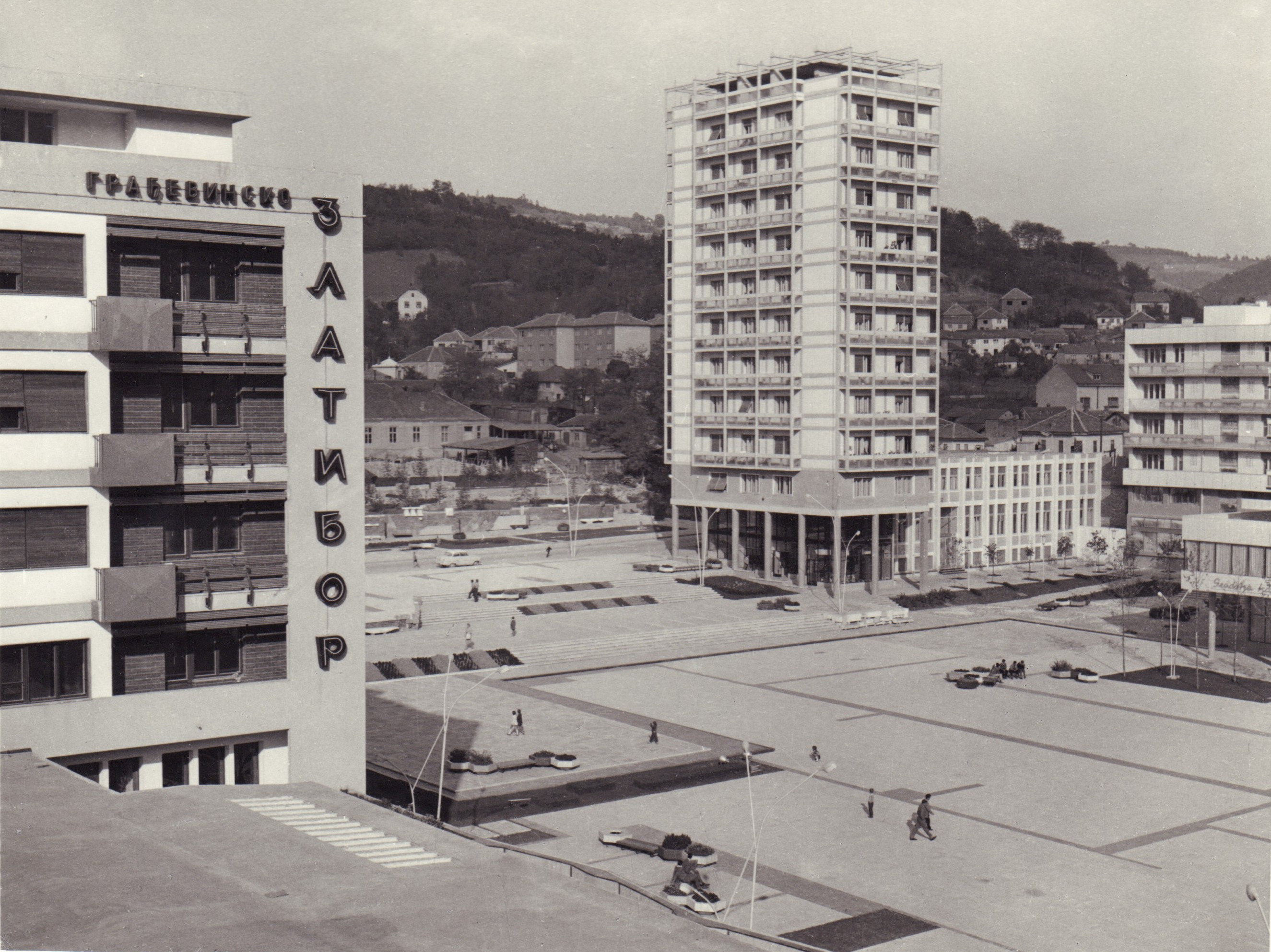 Partizan Square in Užice projected by architect Stanko Mandić.